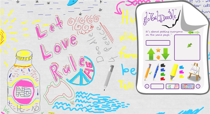 Screenshot showing some doodles and the globalDoodle main menu.